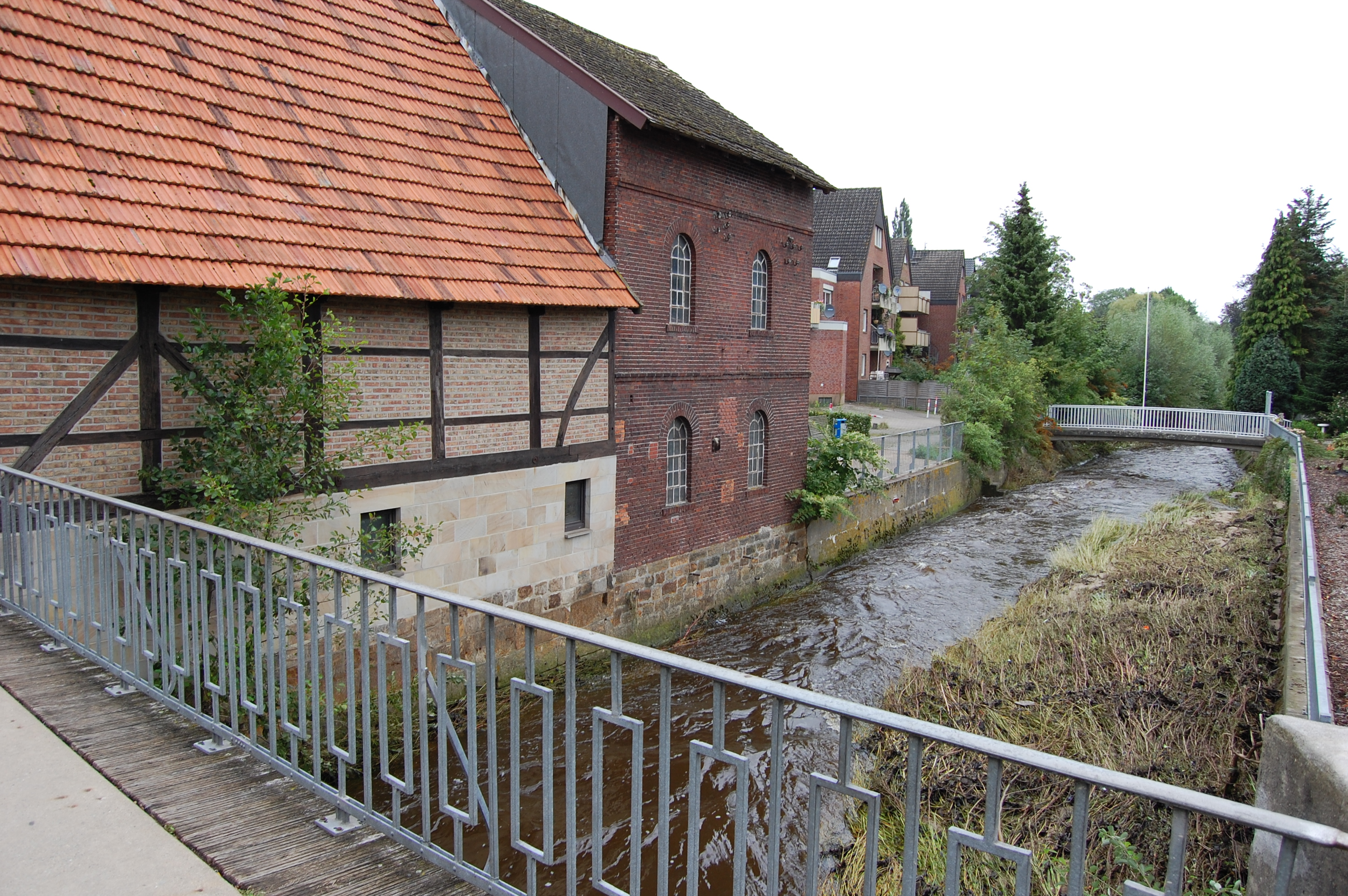 Emsdettener Muehlenbach